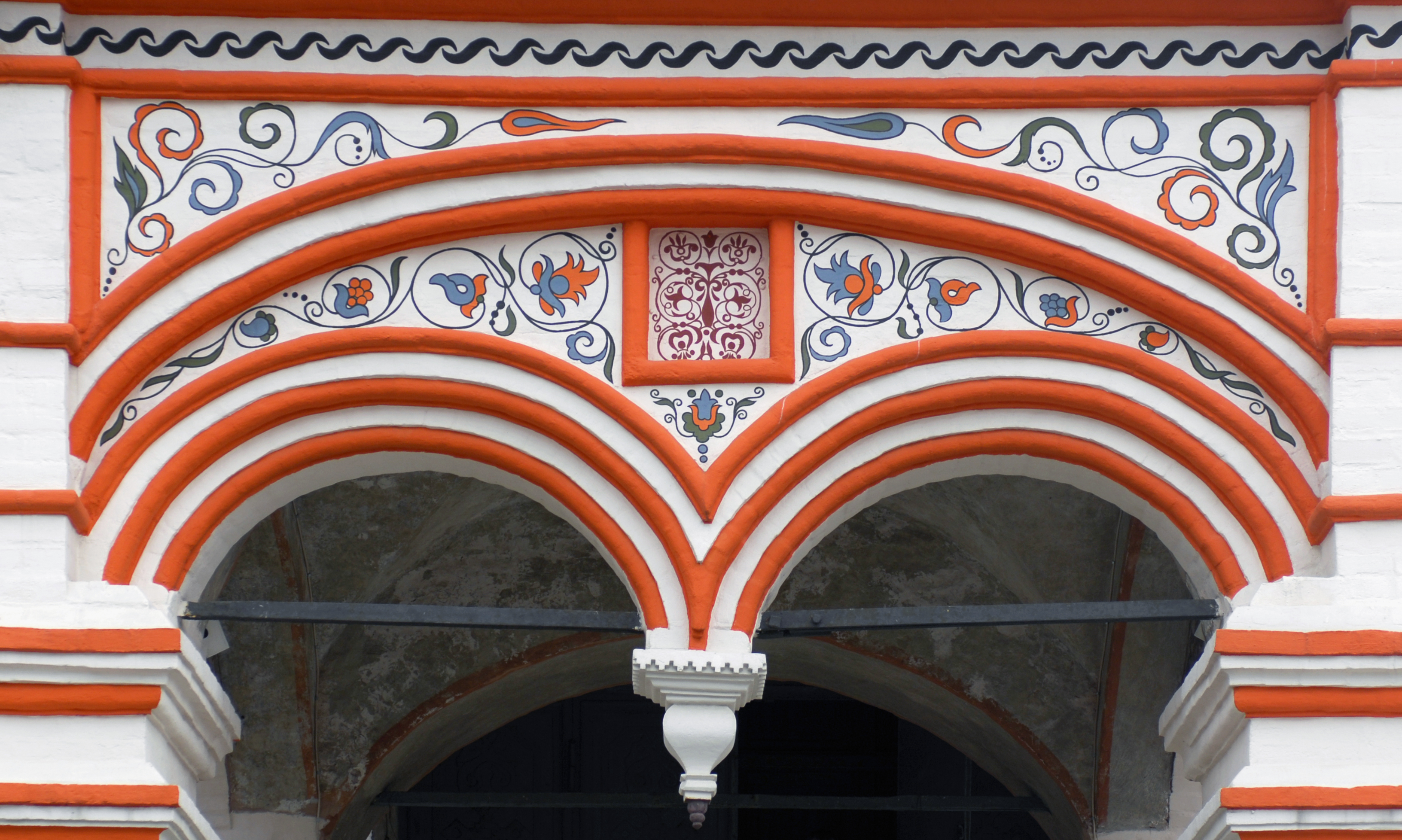 Saint Basil’s Cathedral- Detailed view of the arch over the main entrance.